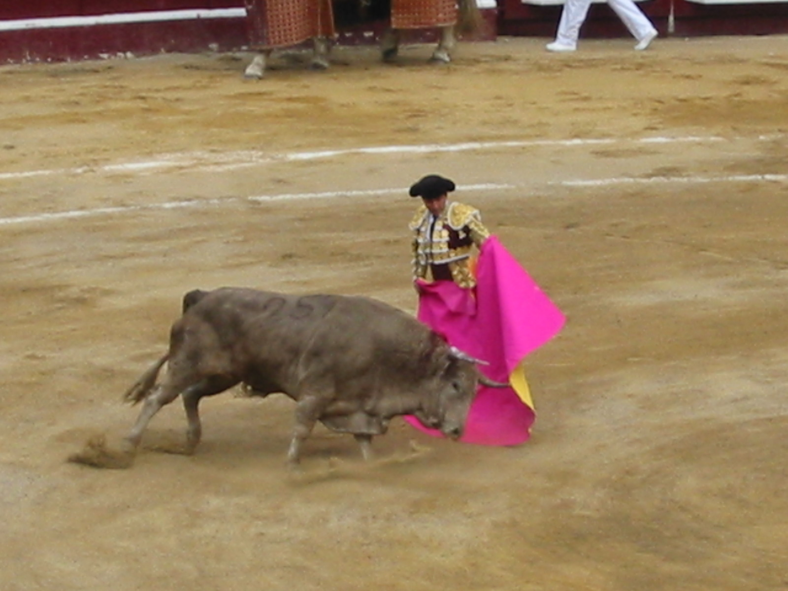 Bull fight in Bogotá, 6 February 2005. Taken by me. Argyriou 15:17, 18 June 2006 (UTC)